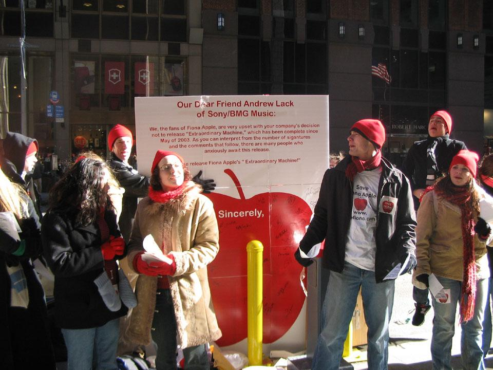 Members of the "Free Fiona" campaign, initiated in support of the official release of American singer-songwriter Fiona Apple's album Extraordinary Machine (2005), protest outside the New York City headquarters of Sony BMG Music Entertainment (parent company of Apple's label, Epic Records) on January 28, 2005.